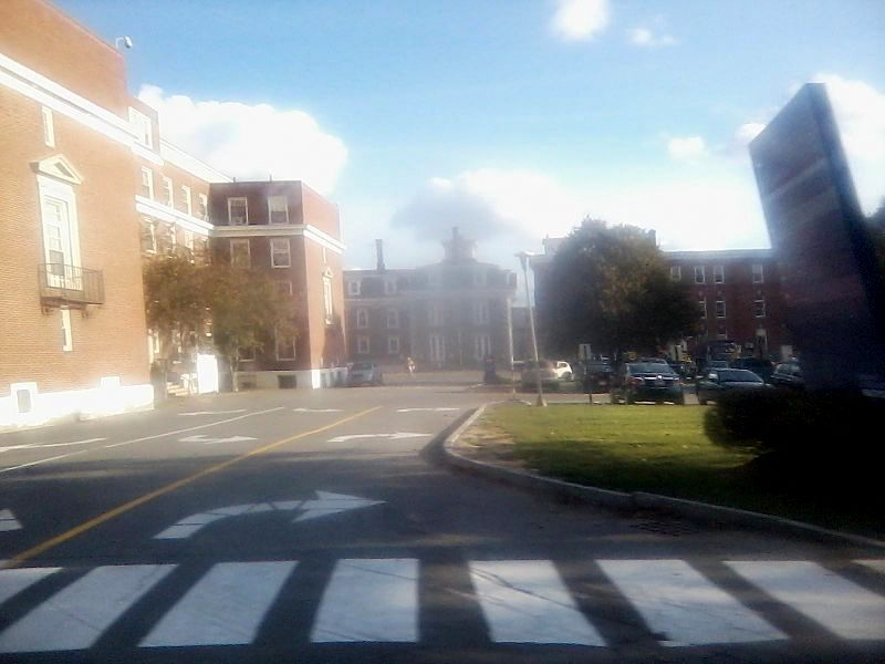 The Benjamin Mace house, the original building that housed EMMC.